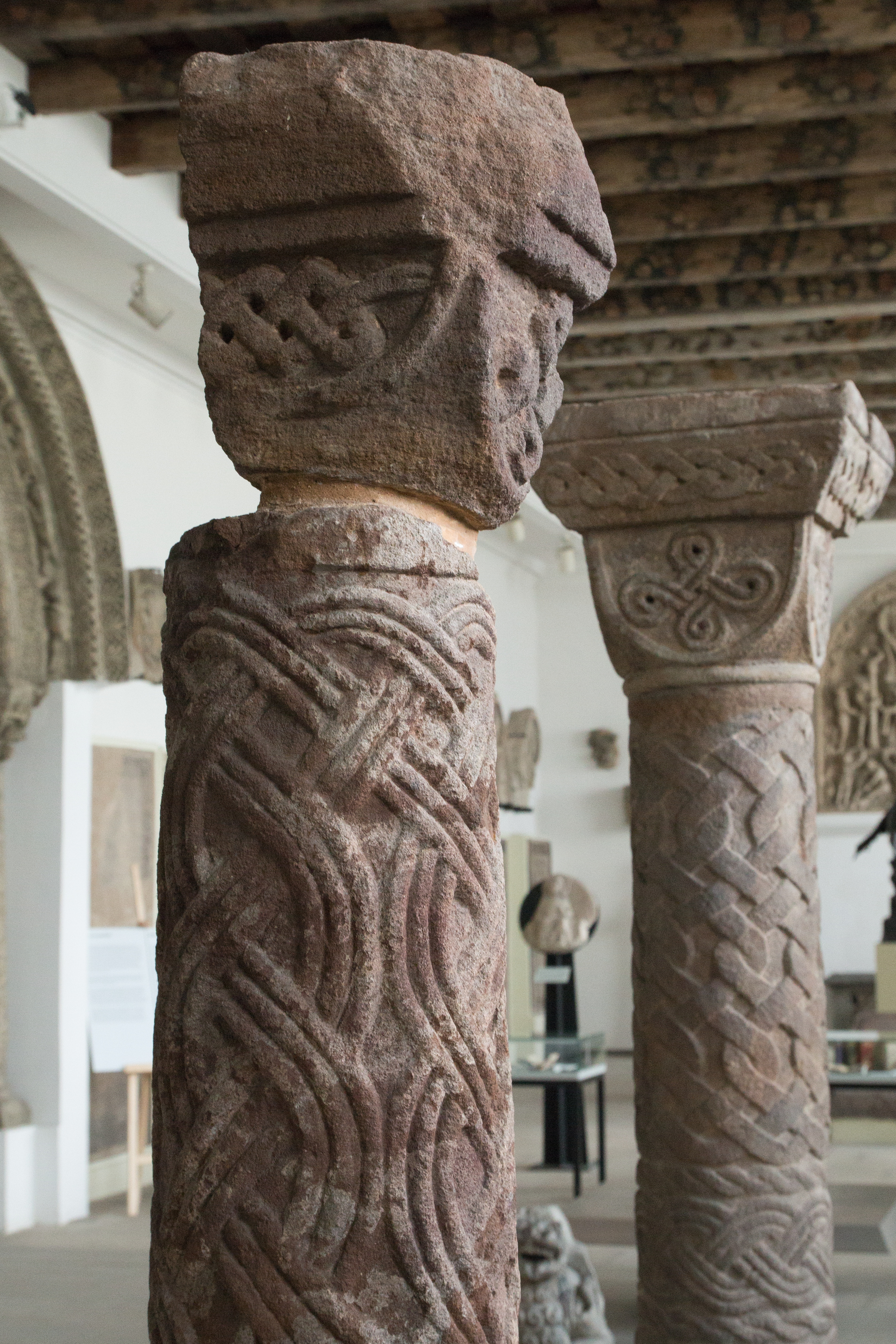 Columns, the former Basilica of St. Vit in Prague Castle, end of the 11th century. Lapidarium of the National Museum in Prague, cat. no. 2 and 3.